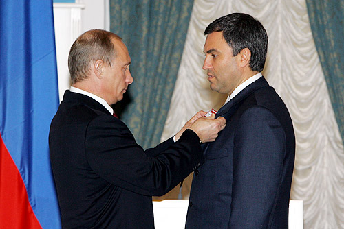 THE KREMLIN, MOSCOW. Ceremony for awarding state awards. Deputy head of the State Duma Viacheslav Volodin was awarded a medal \'For Services to the Fatherland\' fourth degree.